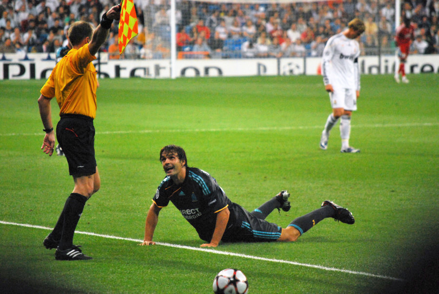 Champions League Real Madrid 3 - O.Marsella 0 30/09/09